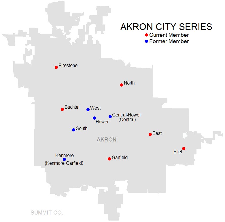 Map showing the Akron City Series members (Central's and Hower's individual locations not shown due to spacing, may be changed later on)